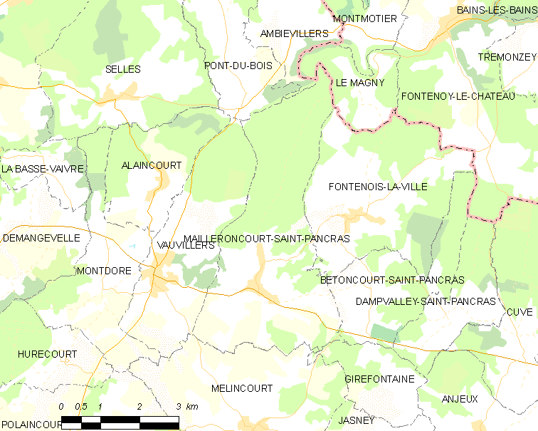 Map of French municipality